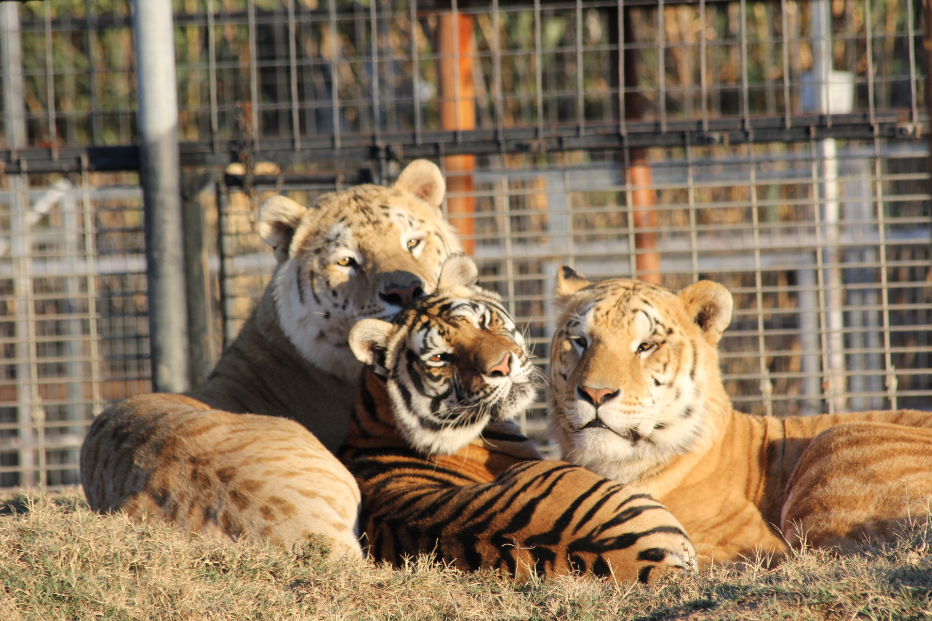 World's first Taliger only found at G.W. ZOO